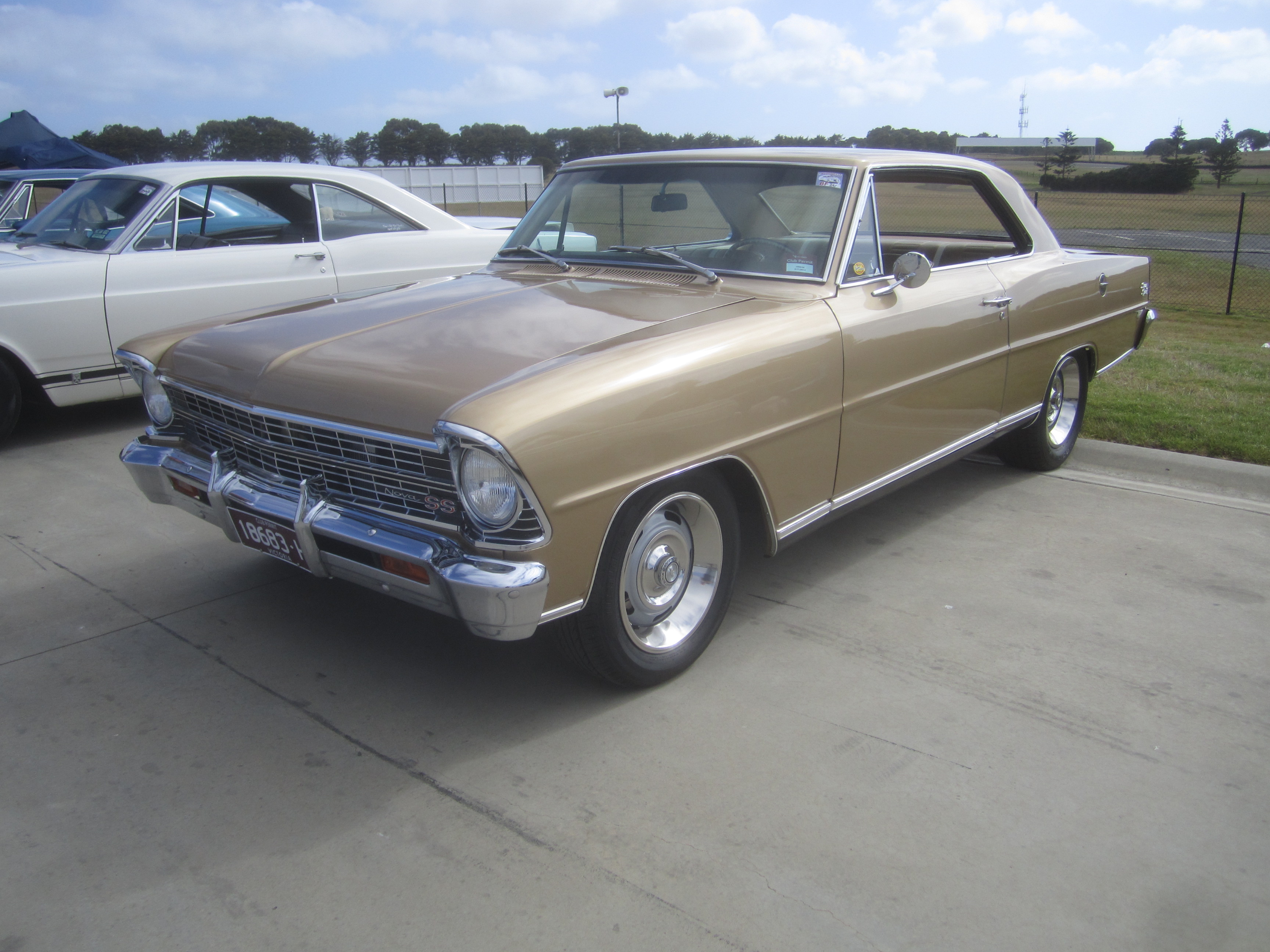 Granada Gold. The Nova or Chevy II as it was earlier known, was a compact car running through 5 generations from 1962-79 and 1985-88. The 1st generation ran from 1962-65, the 2nd from 1966-67, it got sharper edges, a new grille and a semi fastback roofline The SS was visually distinguished by wide rocker panels and a bright aluminium deck lid cove. It had SS emblems on the grille and in the ribbed rear panel, and Super Sport script on the quarter panels. Very minor restyling for 1967, now known as the Nova SS, not Chevy II Nova SS like the previous year, the 1967 Chevrolet Nova SS got a new black-accented anodized aluminium grille. SS wheel covers were again inherited, this time from the 1965-66 Impala SS The SS was available with many engine options; 194 and 250 cu in 6 cyl, 283 and 327 cu in V8s